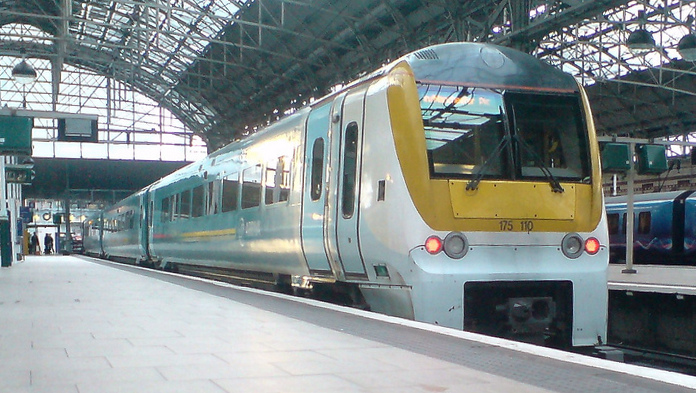 Class 175 train 175110 in Arriva Trains Wales' "ghostly" livery at Manchester Piccadilly.